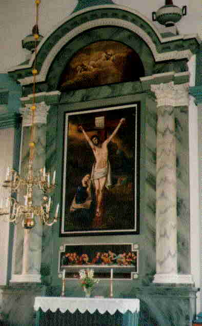 Altar painting in Larsmo Church by J. G. Hedman, 1849